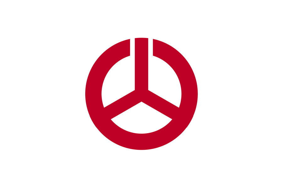 Flag of Koriyama, Fukushima